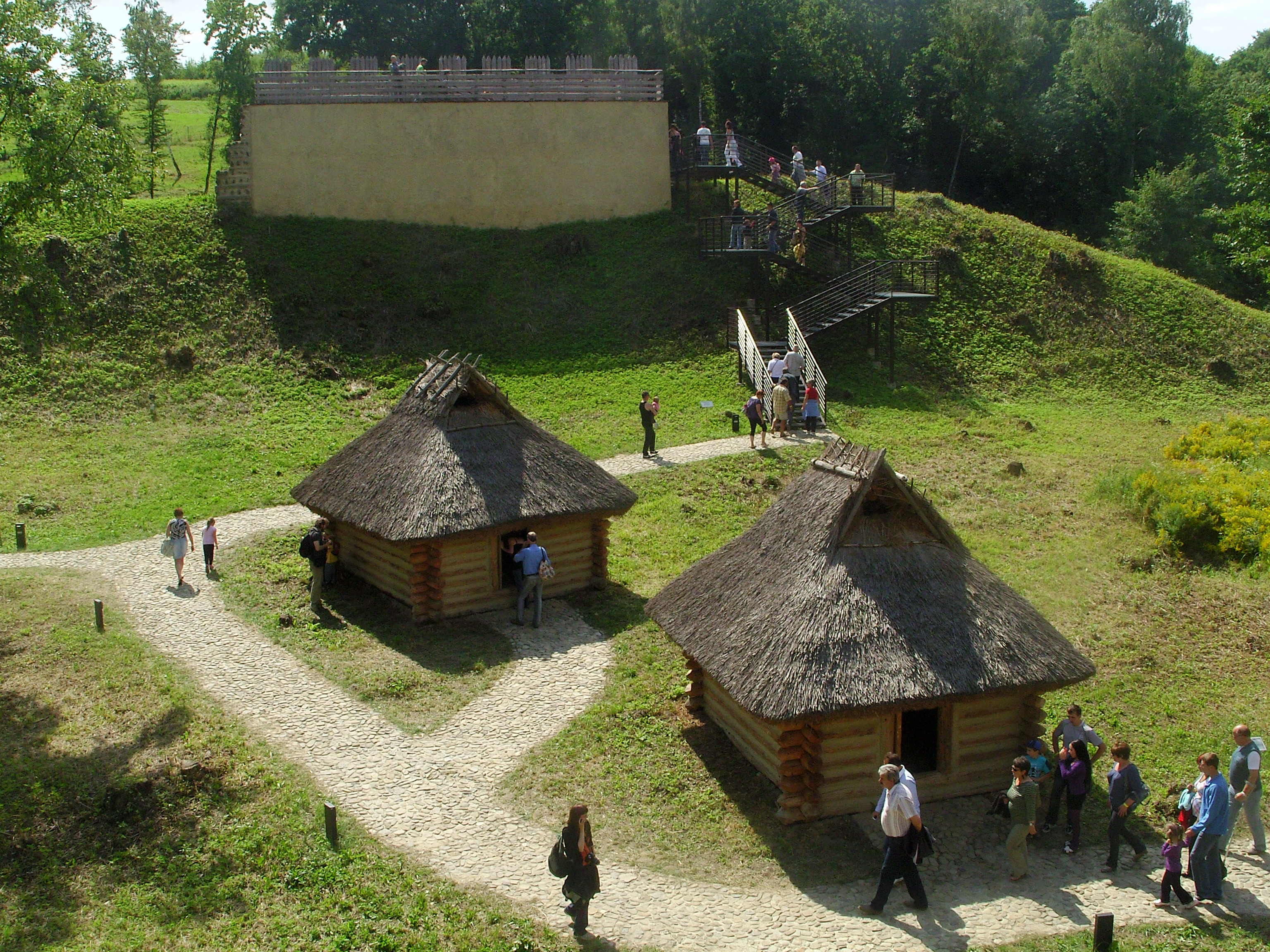 pis Karpacka Troja.JPG Carpathian Troy Archaeological Open Air Museum in Trzcinica near Jasło